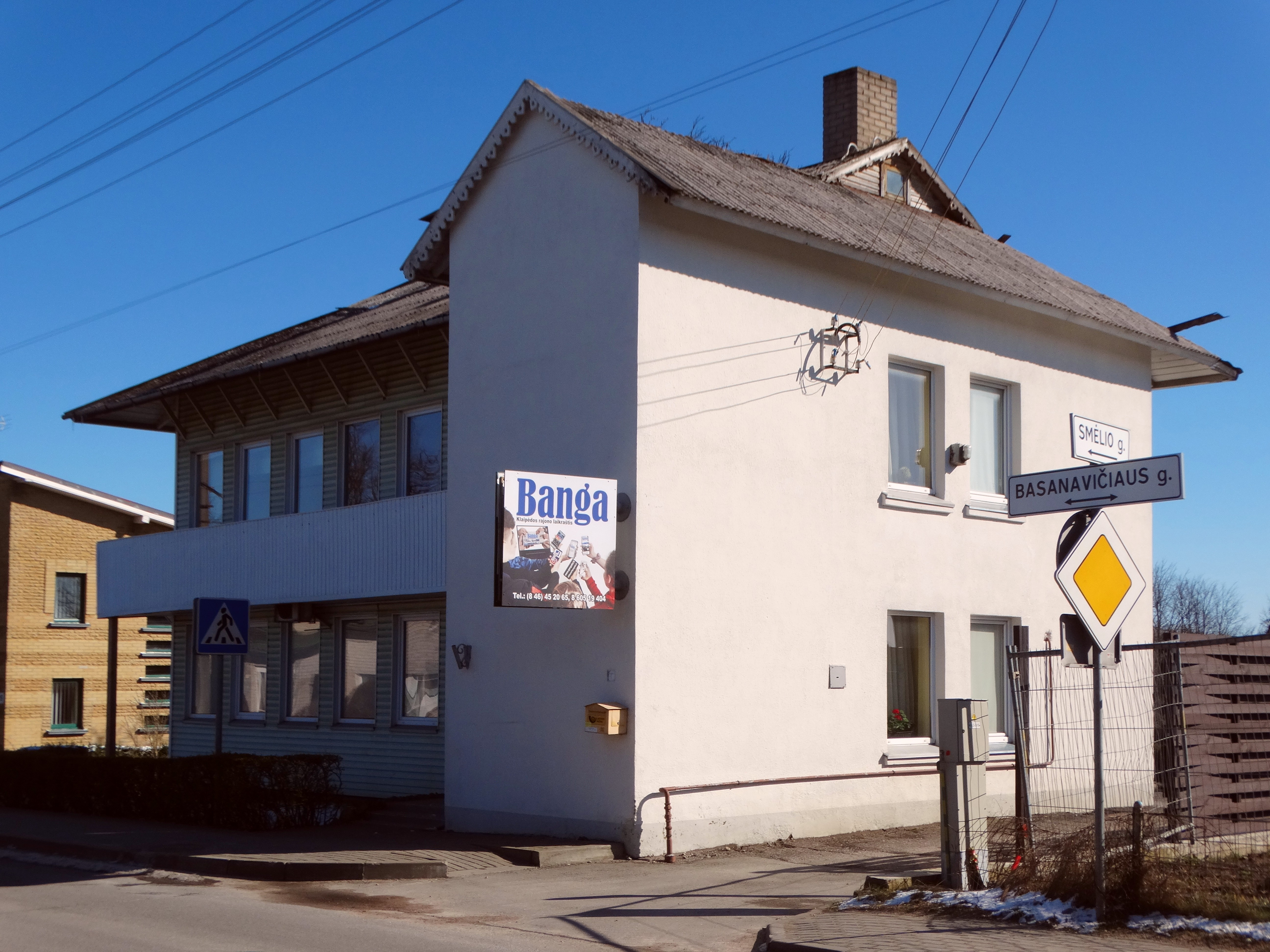 Banga, Gargždai, Lithuania